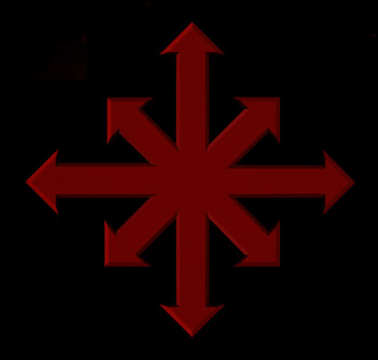 Symbol of Chaos